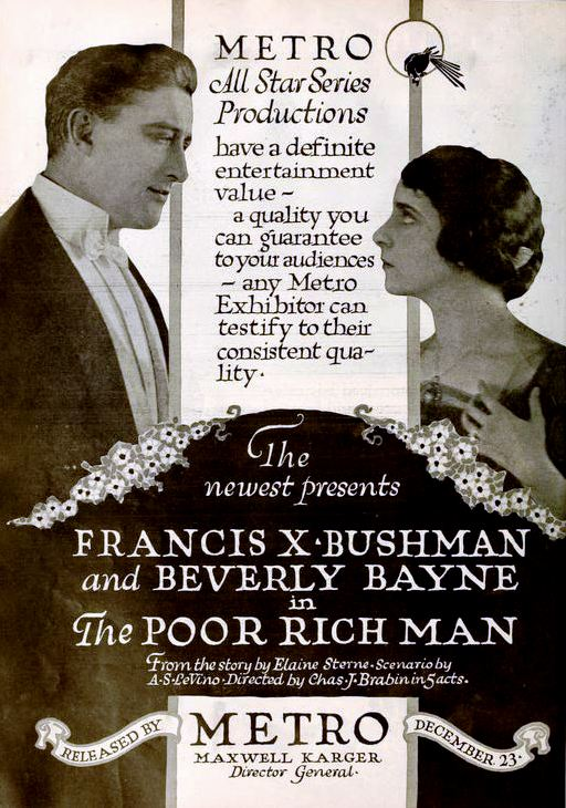 Ad for the American film The Poor Rich Man (1918) with Francis X. Bushman and Beverly Bayne, on page 42 of the January 4, 1919 Moving Picture World.